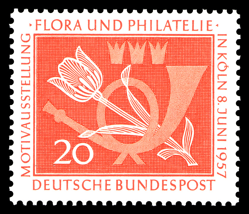 Special stamp for the exhibition of stamps, Köln